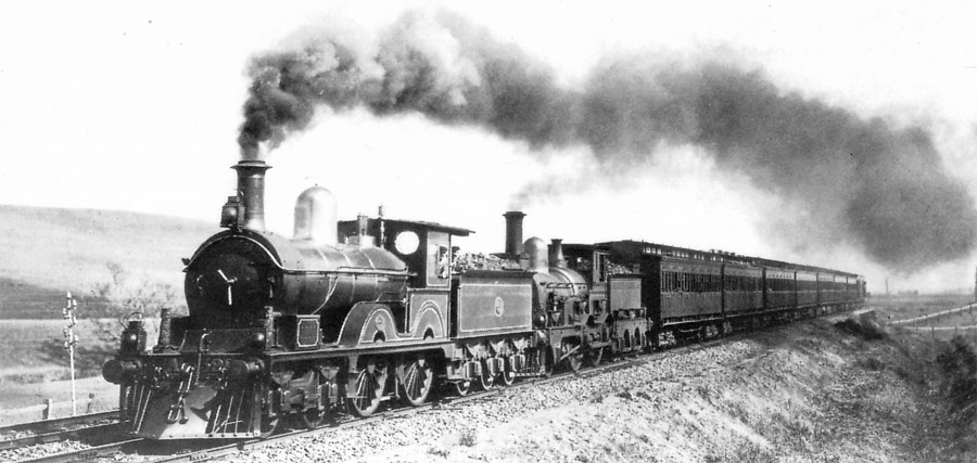 Victorian Railways photograph of New A 398 leading a B class up Glenroy Bank on the Sydney Express, circa 1900. Captioned As {}